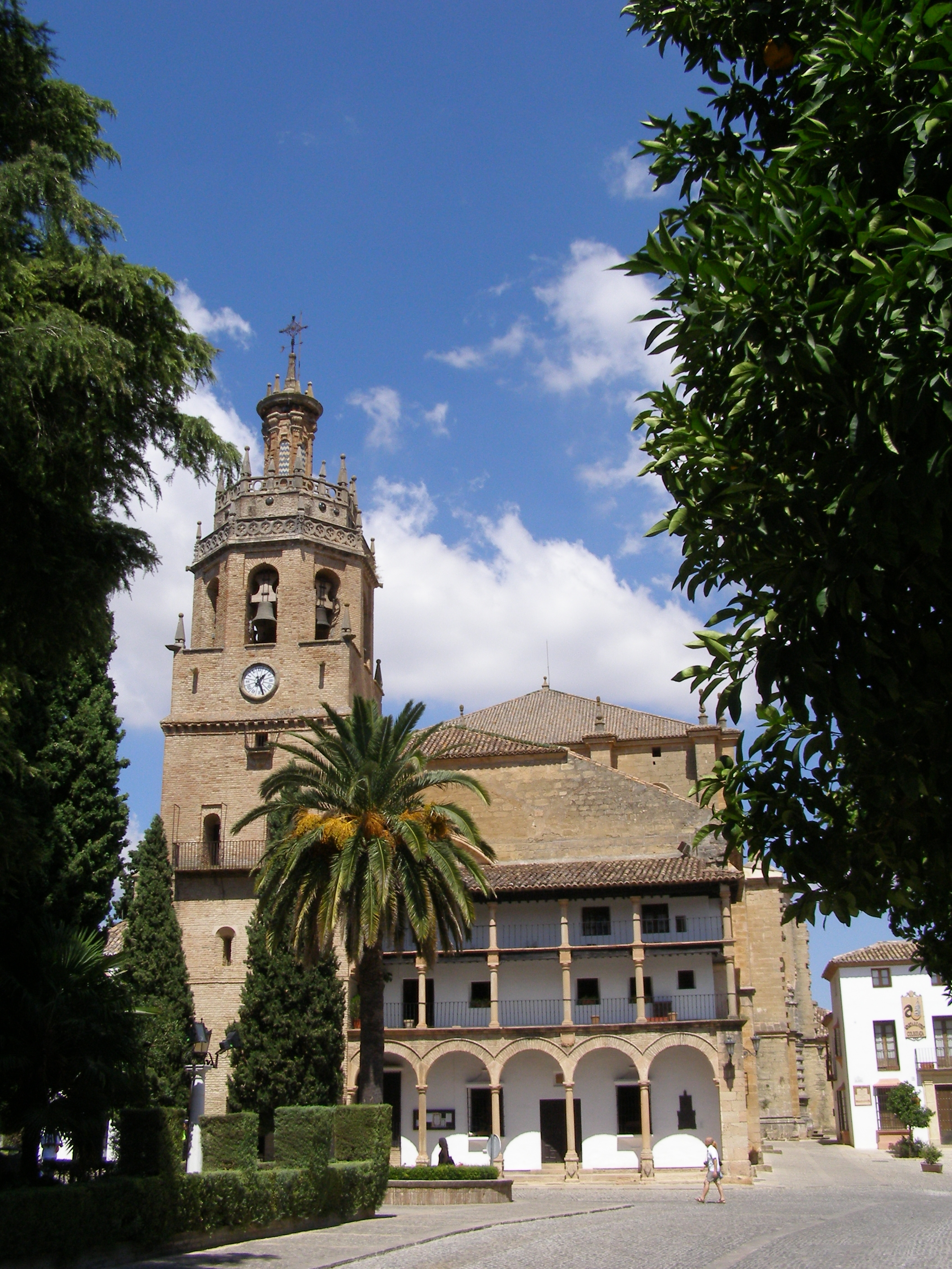 Ronda - Santa María de la Encarnación la Mayor church